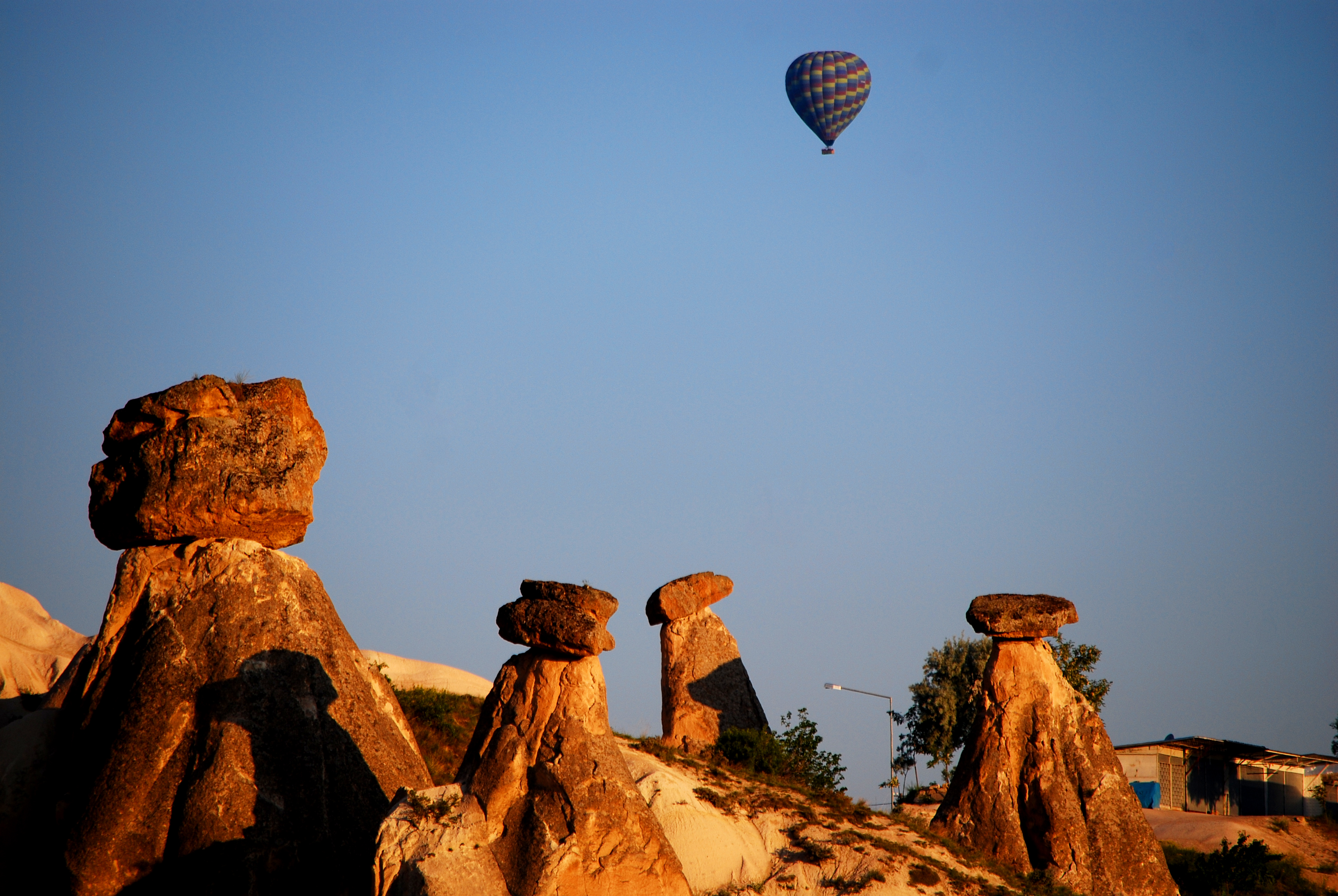 Fairiy Chimneys & Balloon